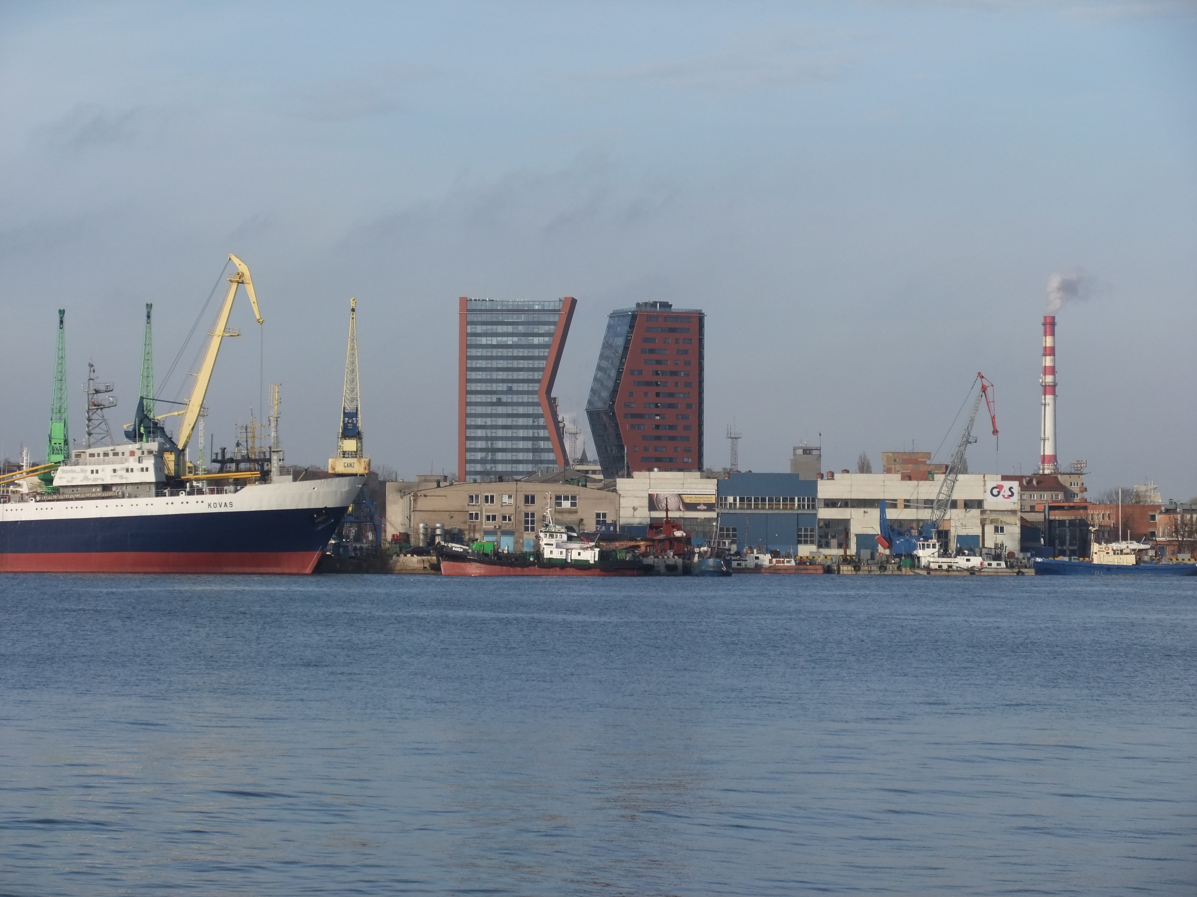 K&D buildings in Klaipėda, Lithuania.